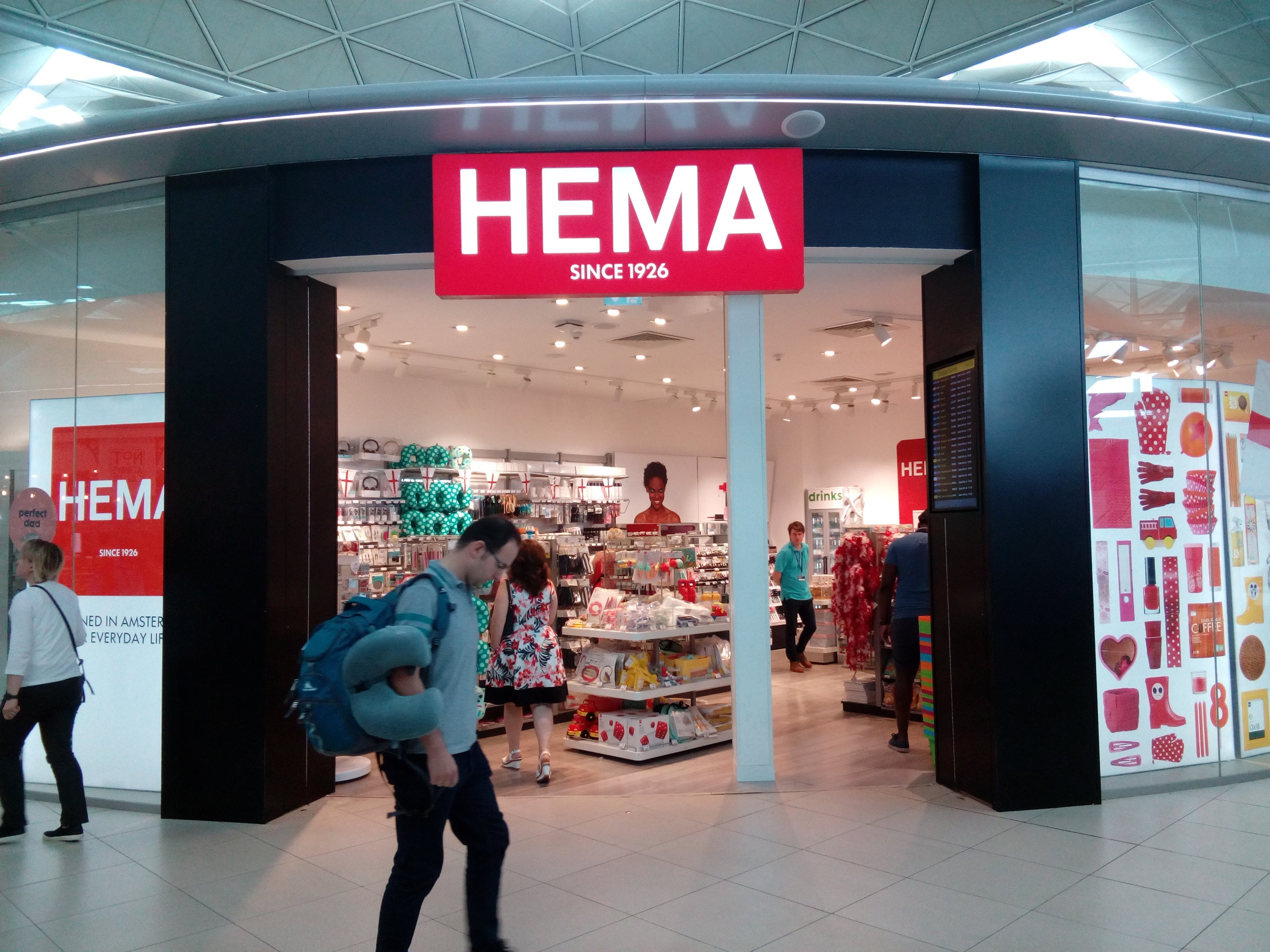 HEMA Store at London Stansted Airport